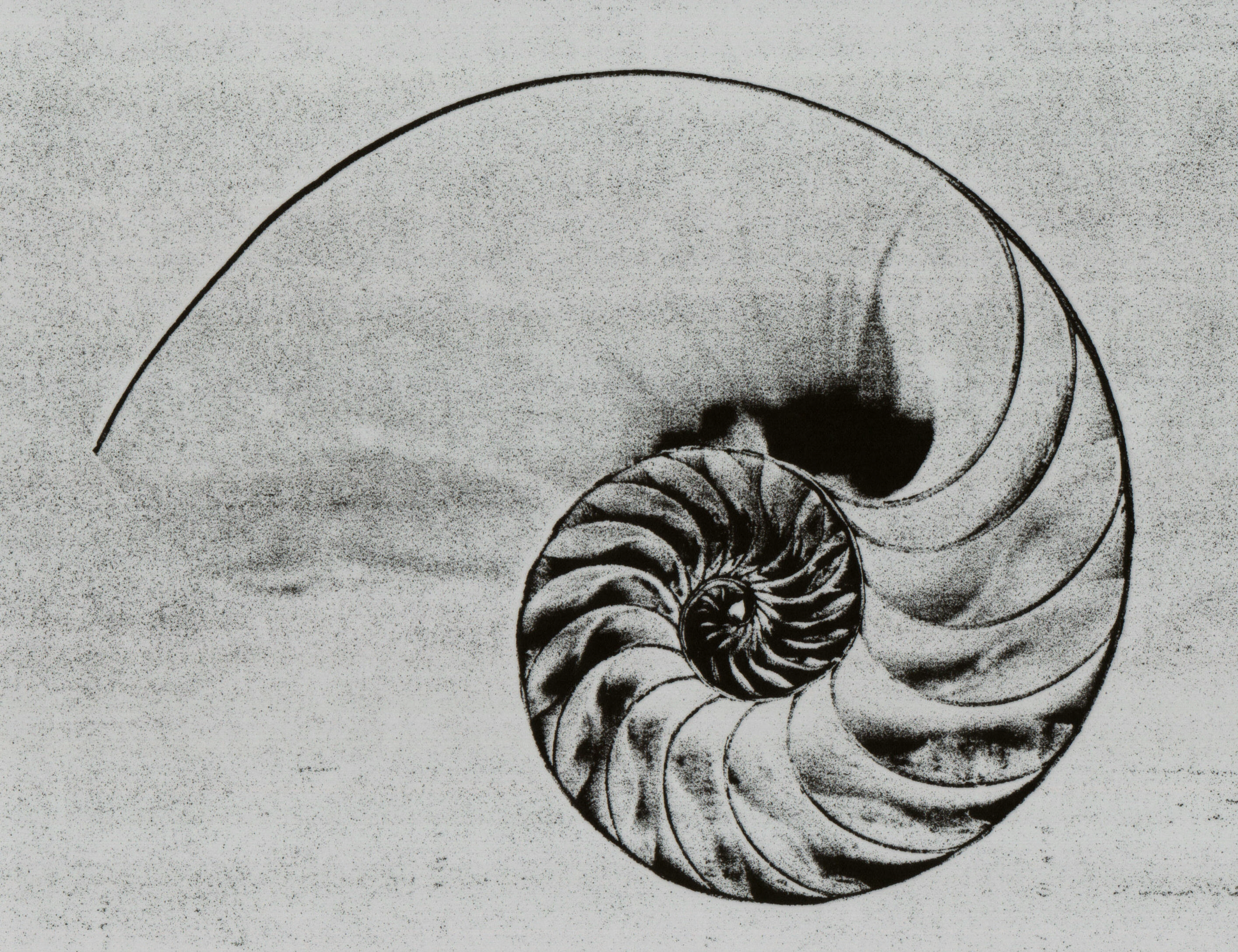 The cut nautilus shell was openly photocopied on a standard commercial photocopier.